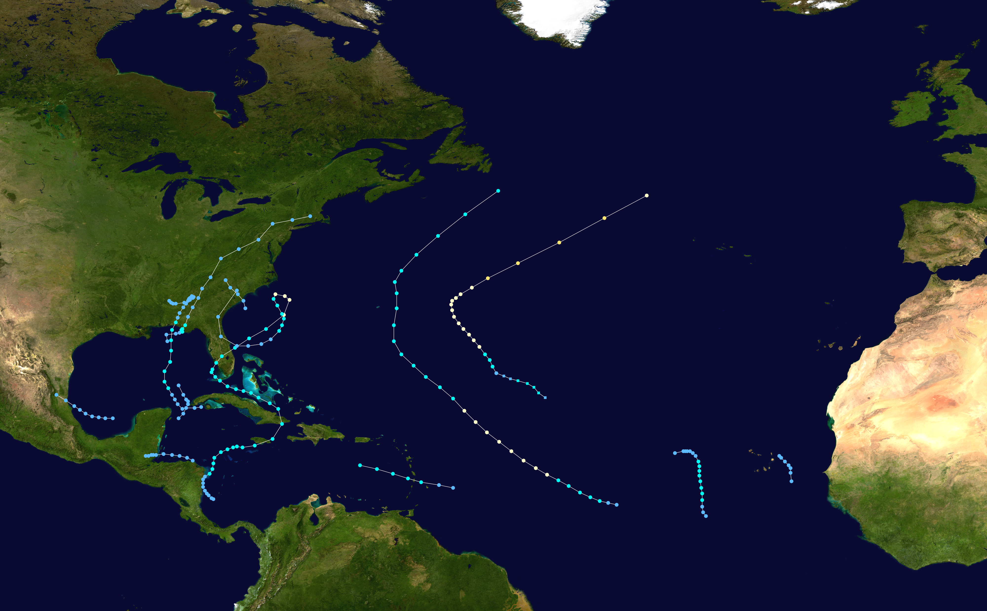 This map shows the tracks of all tropical cyclones in the 1994 Atlantic hurricane season. The points show the location of each storm at 6-hour intervals. The colour represents the storm's maximum sustained wind speeds as classified in the Saffir-Simpson Hurricane Scale (see below), and the shape of the data points represent the type of the storm. Saffir–Simpson scale Tropical depression≤38 mph≤62 km/h Category 3111–129 mph178–208 km/h Tropical storm39–73 mph63–118 km/h Category 4130–156 mph209–251 km/h Category 174–95 mph119–153 km/h Category 5≥157 mph≥252 km/h Category 296–110 mph154–177 km/h Unknown Storm type Tropical cyclone Subtropical cyclone Extratropical cyclone / Remnant low / Tropical disturbance / Monsoon depression